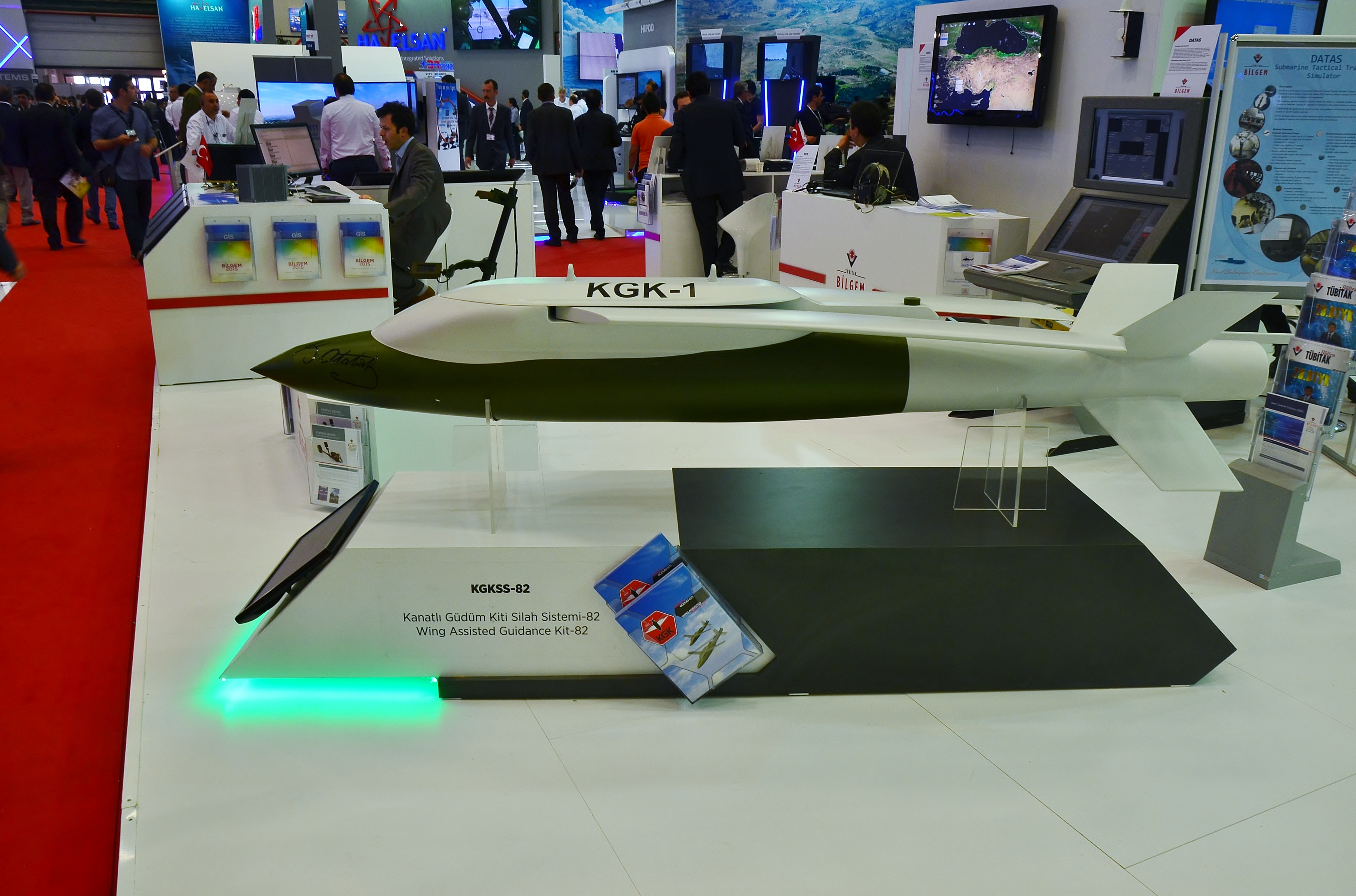 Wing-assisted guidence kit KGKSS-82 of Roketsan at IDEF 2015